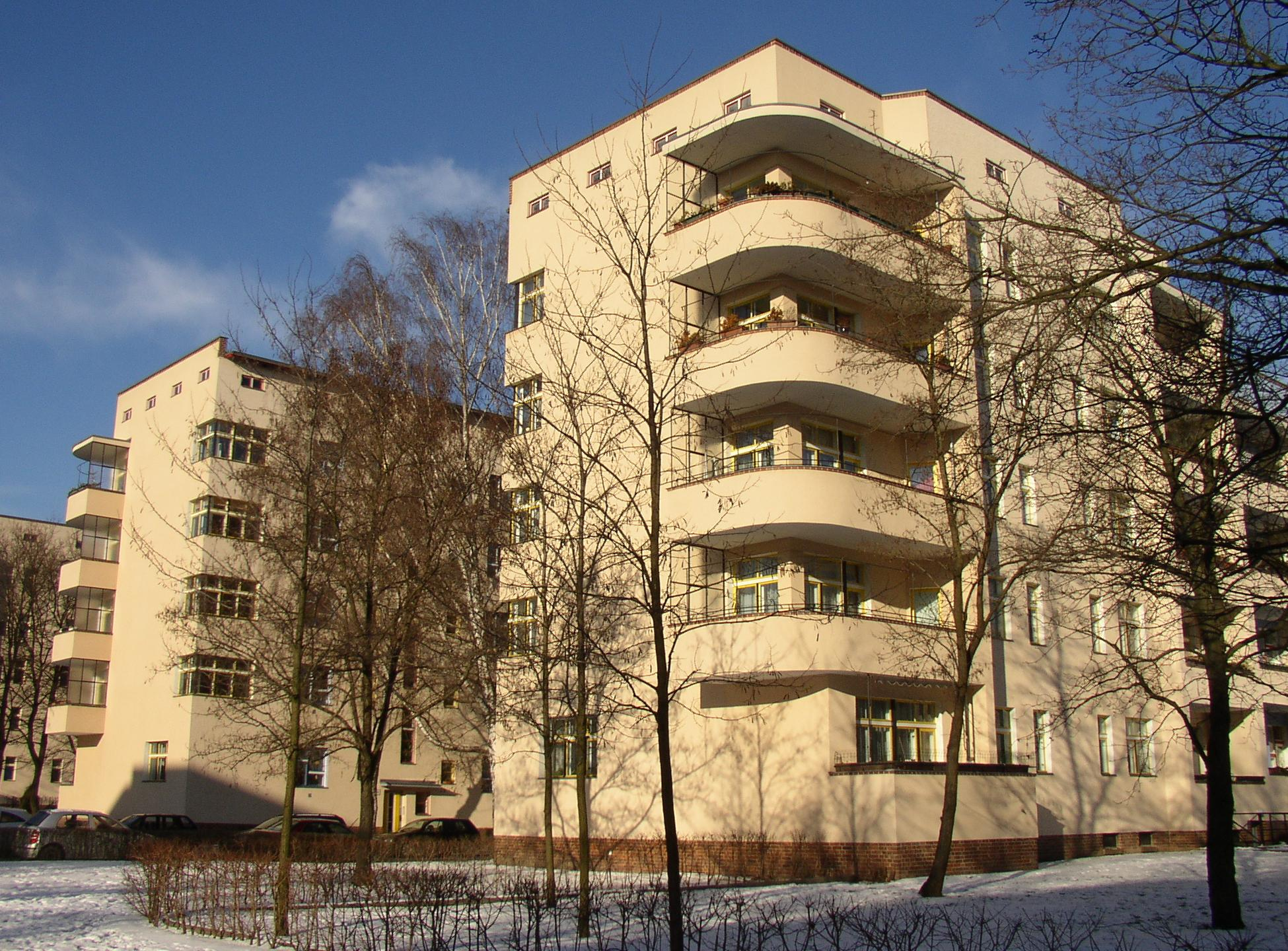 Wohnstadt Carl Legien in Berlin-Prenzlauer Berg, Germany (planner Bruno Taut)